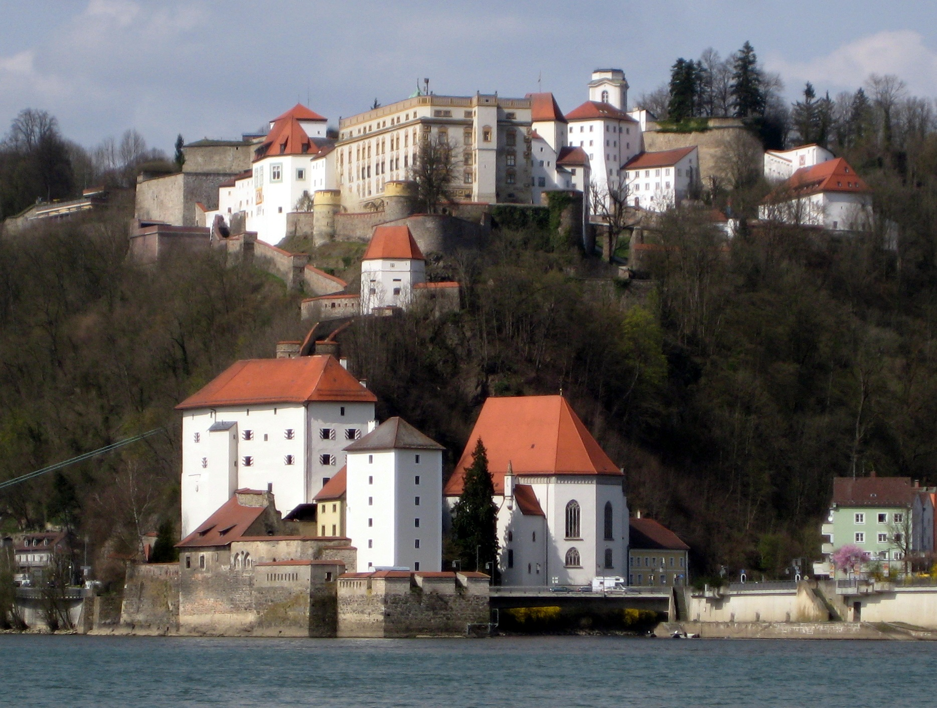 Passau (Veste Oberhaus, Veste Niederhaus, Wallfahrtskirche St. Salvator)